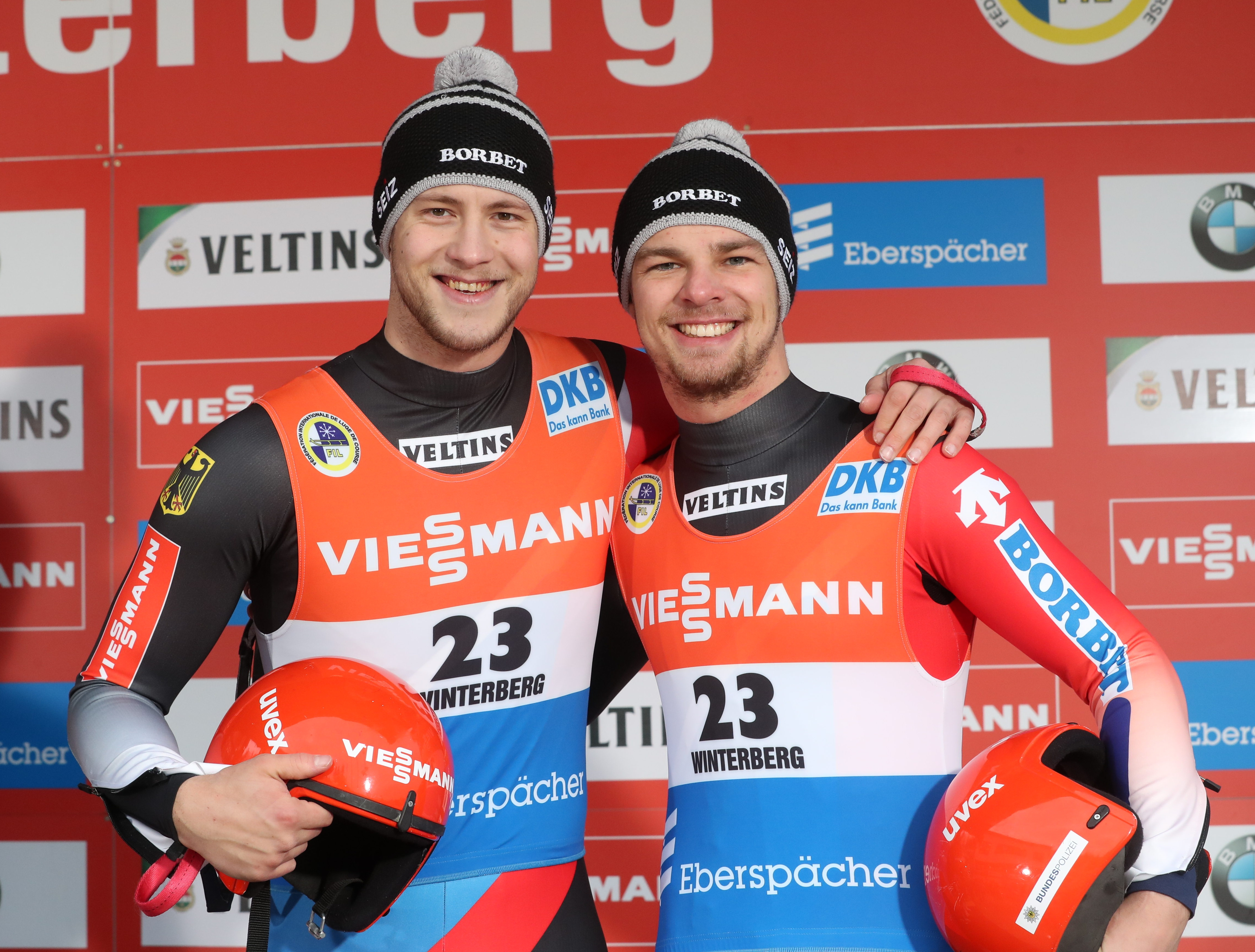 Luge World Cup Doubles in Winterberg: Robin Geueke, David Gamm